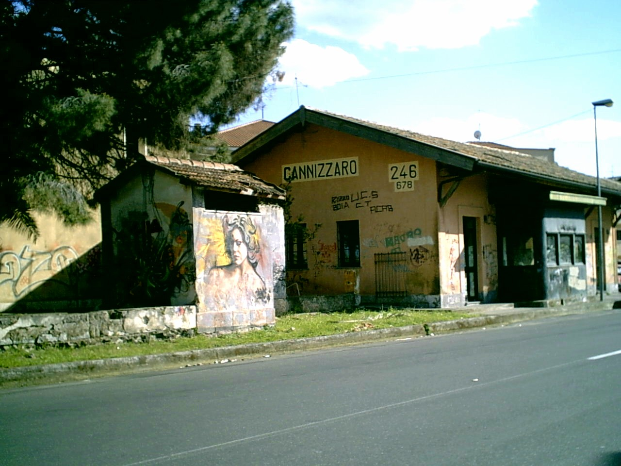 Old Cannizzaro train station (Sicily, Italy), now dismissed.